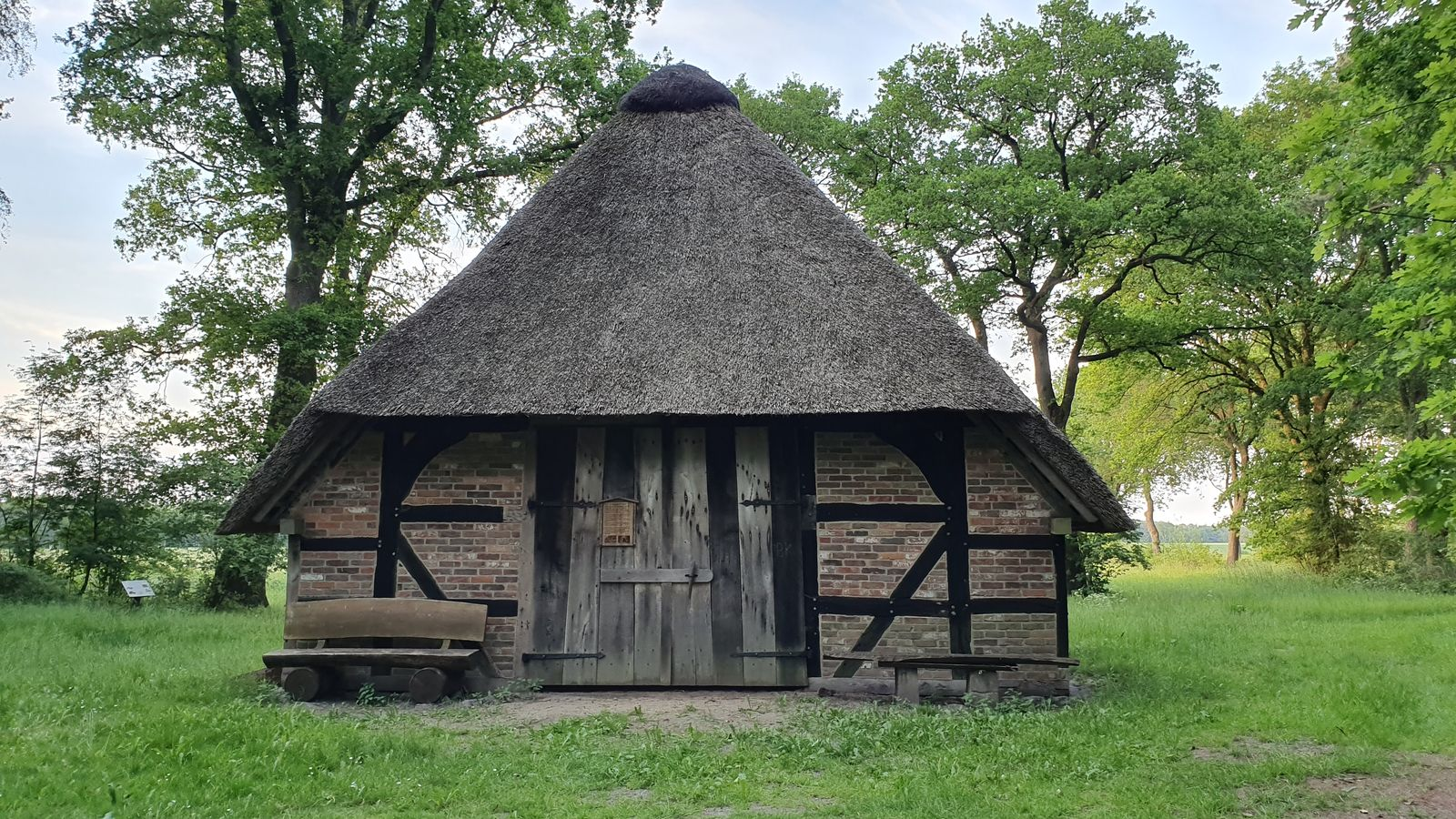 Diers Schafstall in Stemmen